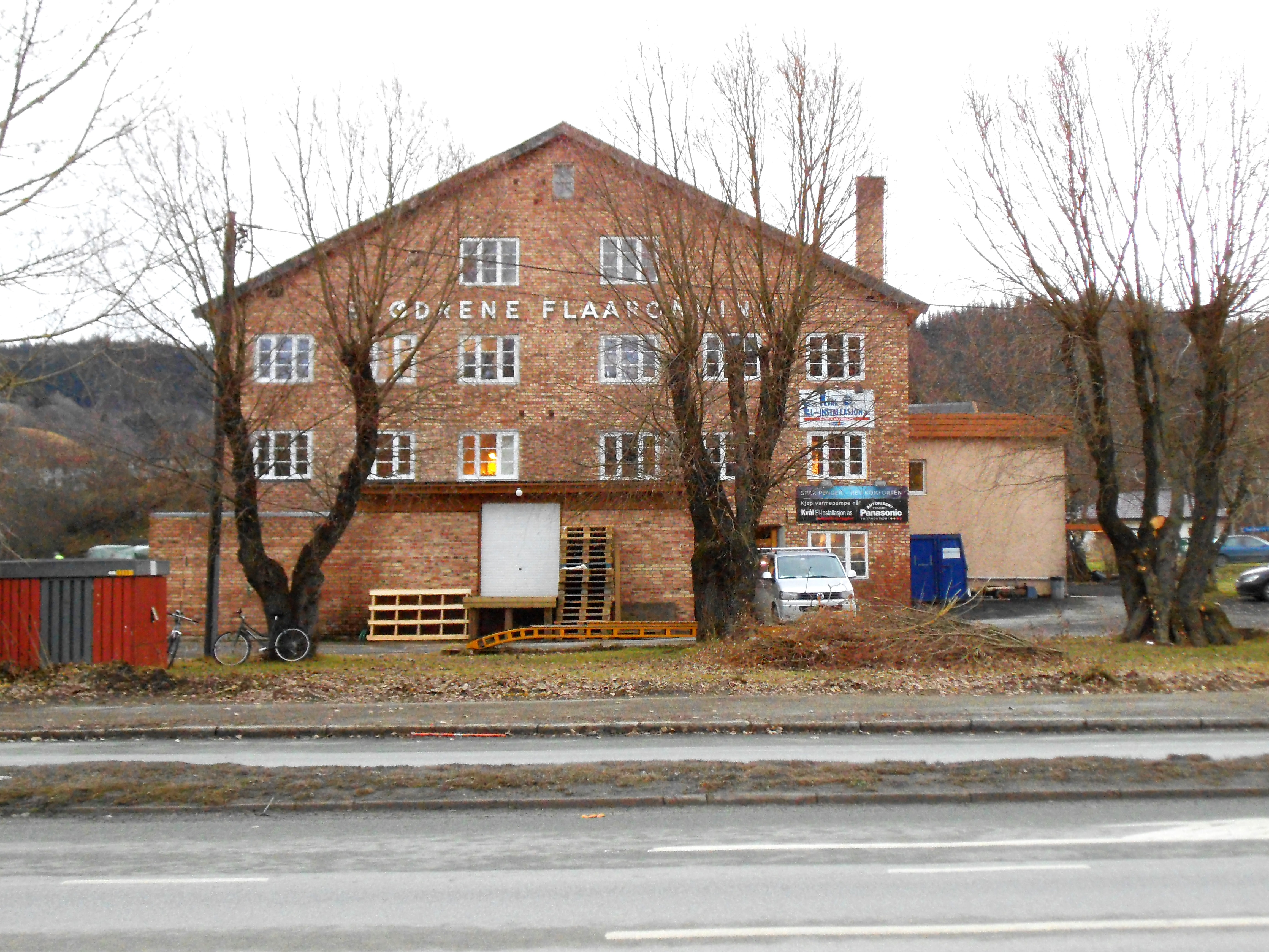 Brødrene Flaarønning in Ler, Melhus. The old brick building.